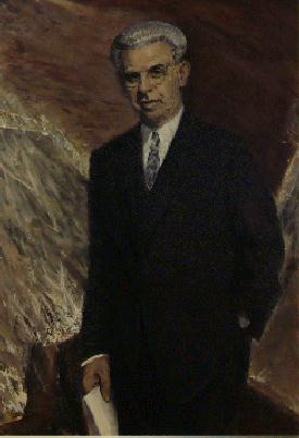 Arthur J. Goldberg Upload Source - U.S. Department of Labor Biography evrik ( Arthur J. Goldberg)